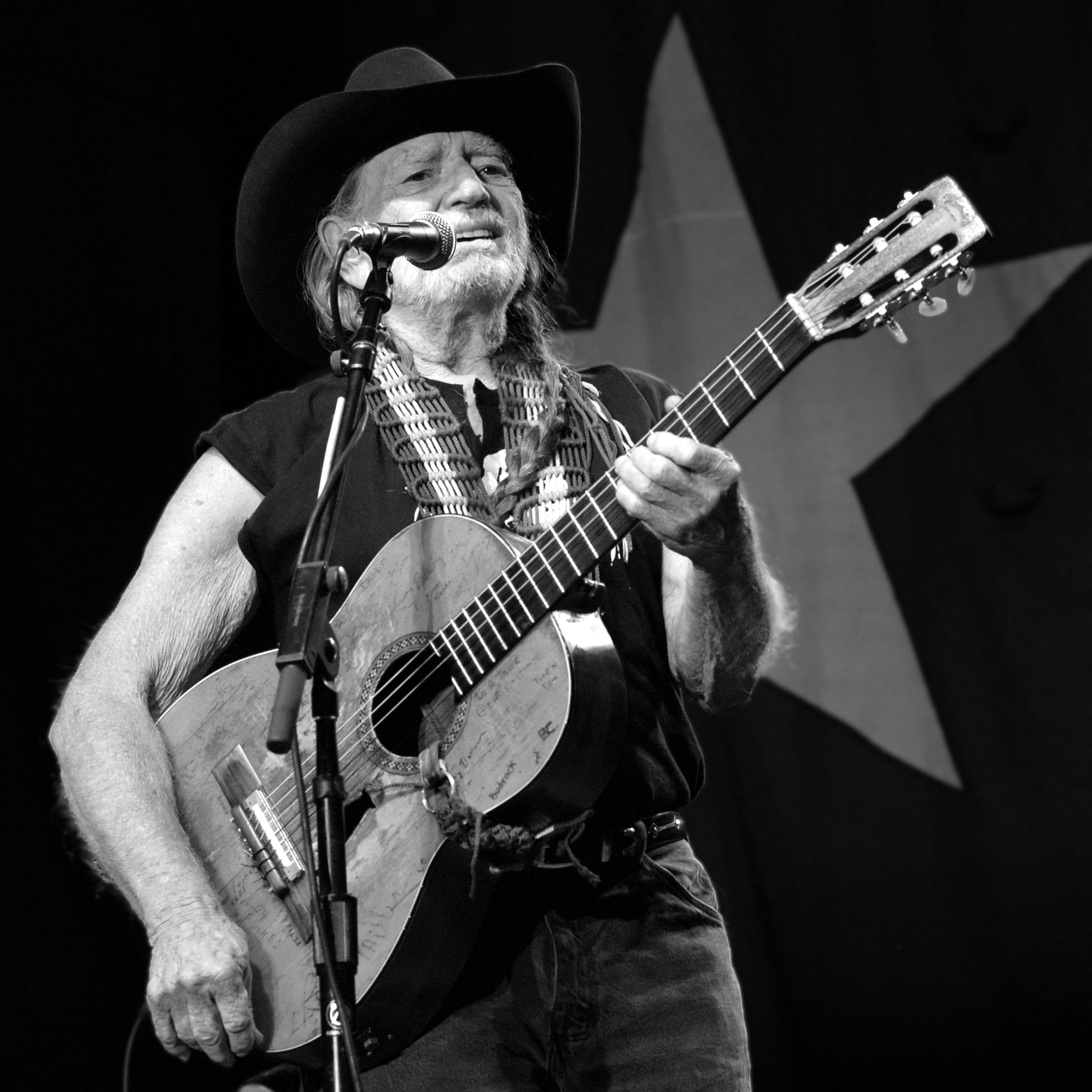 Willie Nelson performing at Marymoor Park in Redmond, Washington.